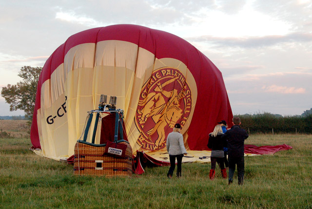 Balloon landing (4) The crew and passengers have alighted and their hot air balloon is deflating after having landed in pasture north of Flecknoe Station Road east of the village of Hill.